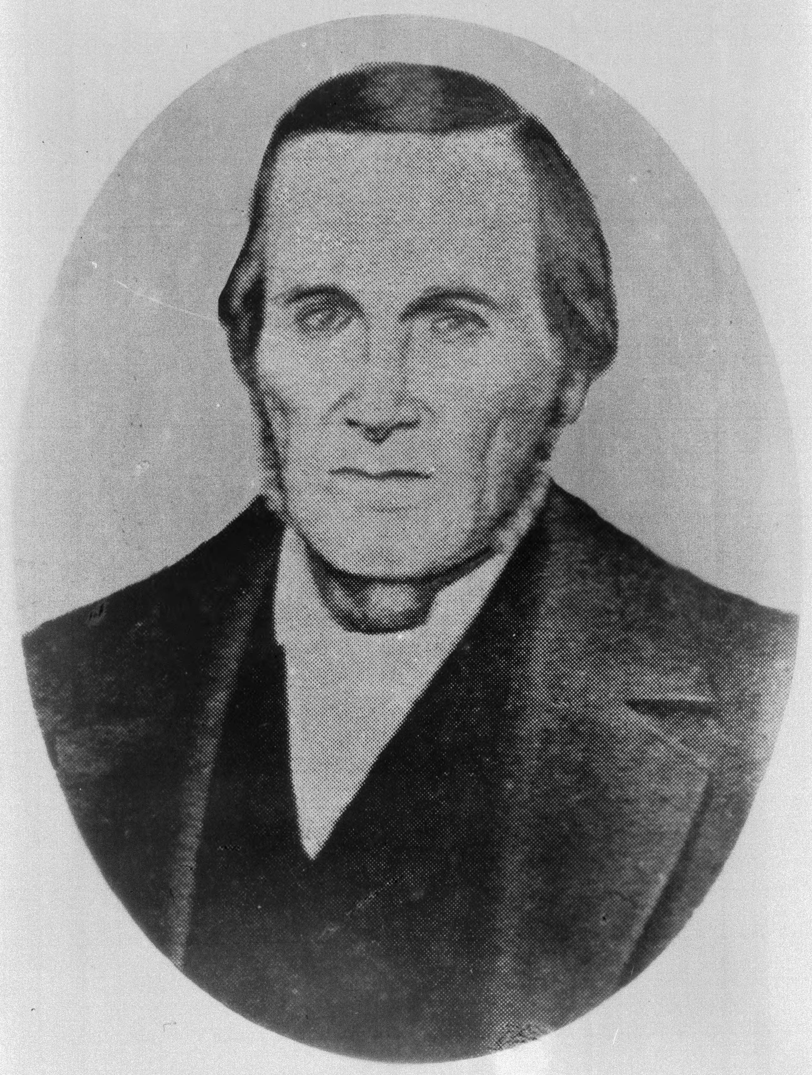 Photograph of a portrait of the Los Angeles pioneer, William Wolfskill, shown in a half-tone print, ca.1831. From the chest up. In an oval cutout. His hair is parted on his left. He has long sideburns. He is wearing a 3-piece suit.; "A trapper from Kentucky, he was married into the Lugo family. In 1841 he planted an orange orchard of two acres where the Southern Pacific station stands at Fifth and Alameda, [Los Angeles]. 20 years later he had 100 acres of oranges and was the father of that industry in California. -- Before locating in Los Angeles he traded with the Indians. His wife was Magdalena Lugo, daughter of Jose Ygnacio Lugo of Santa Barbara, brother of Anonia Maria Lugo."